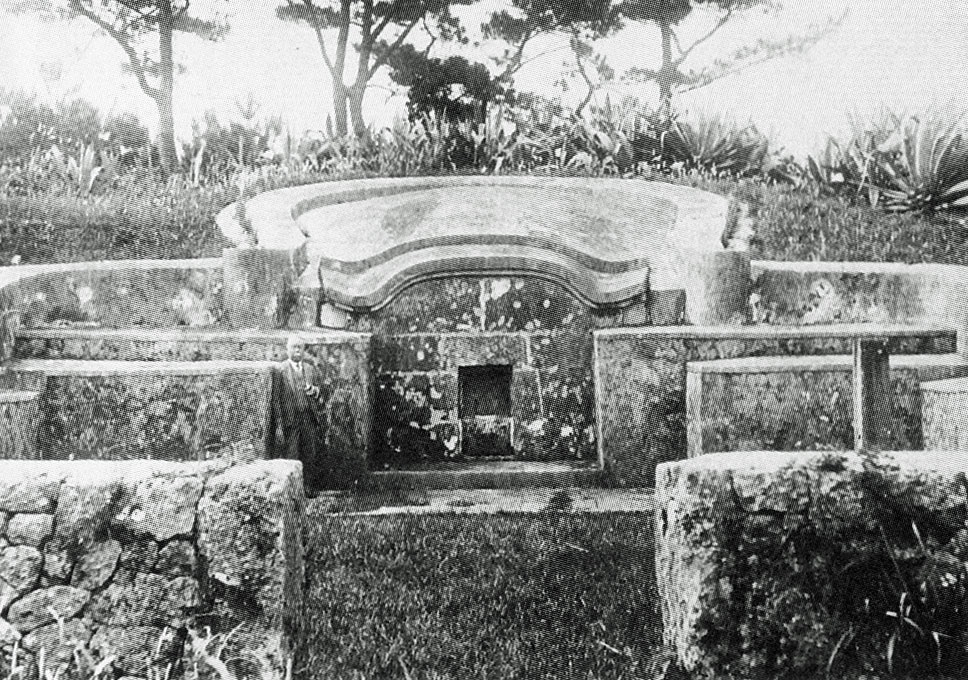 Tomb of Giwan Ueekata Choho